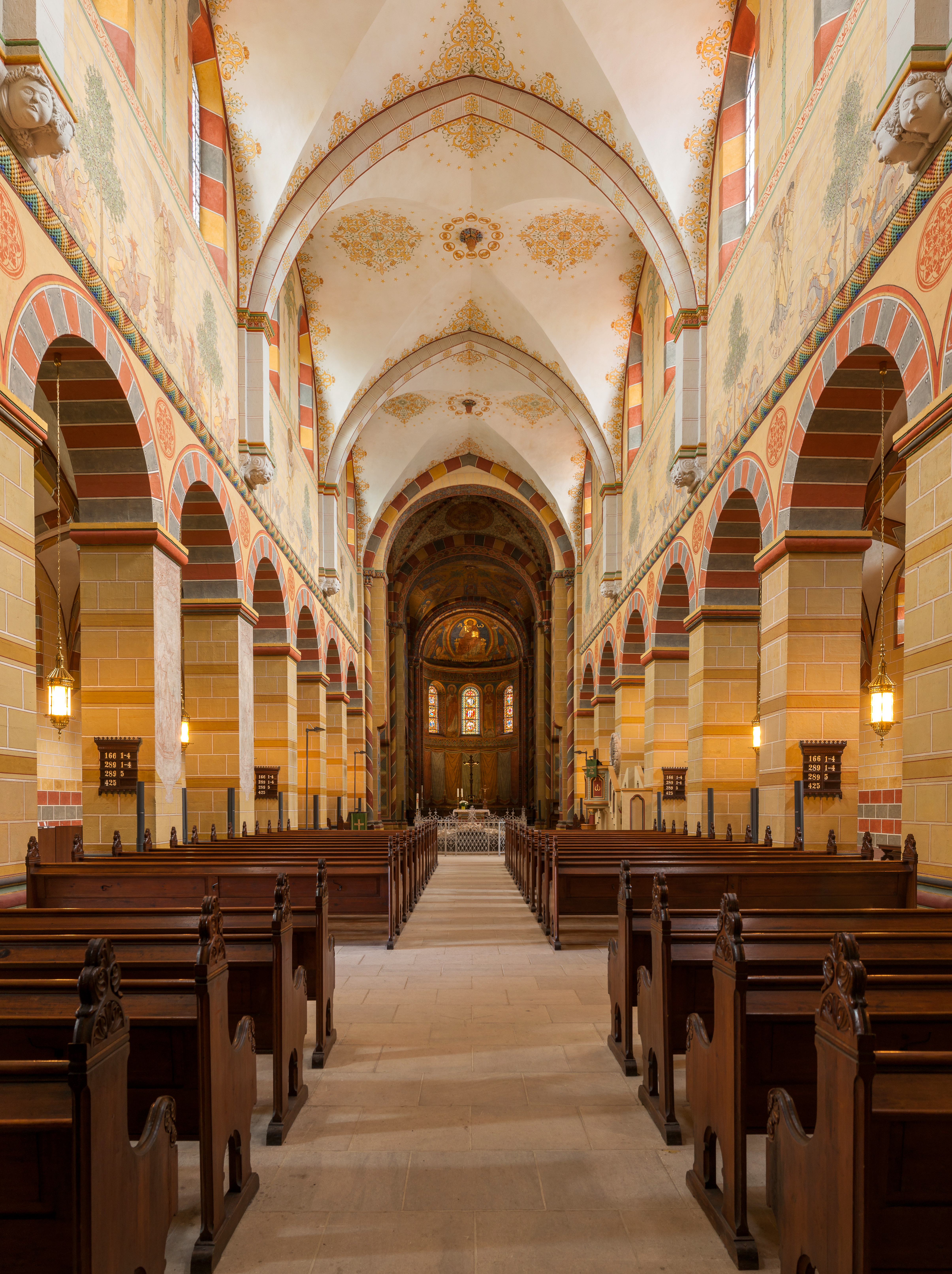 Imperial Cathedral of Königslutter, view along the nave towards the crossing.